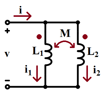 Two inductors in parallel mutually aiding